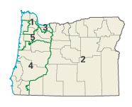 Image adapted from US fed gov't source Category:Oregon maps